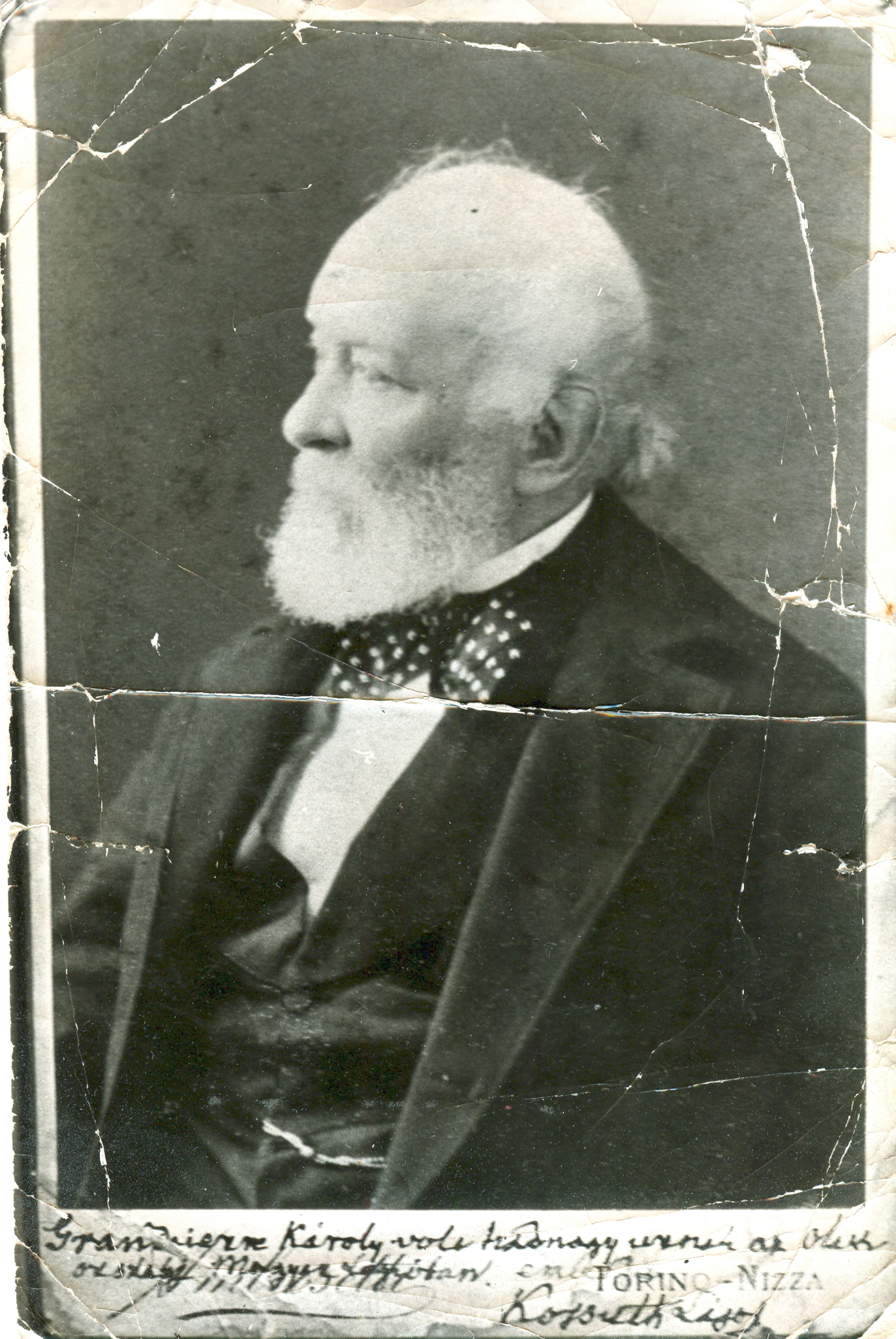 A photo of Lajos Kossuth dedicated to Károly Grandpierre